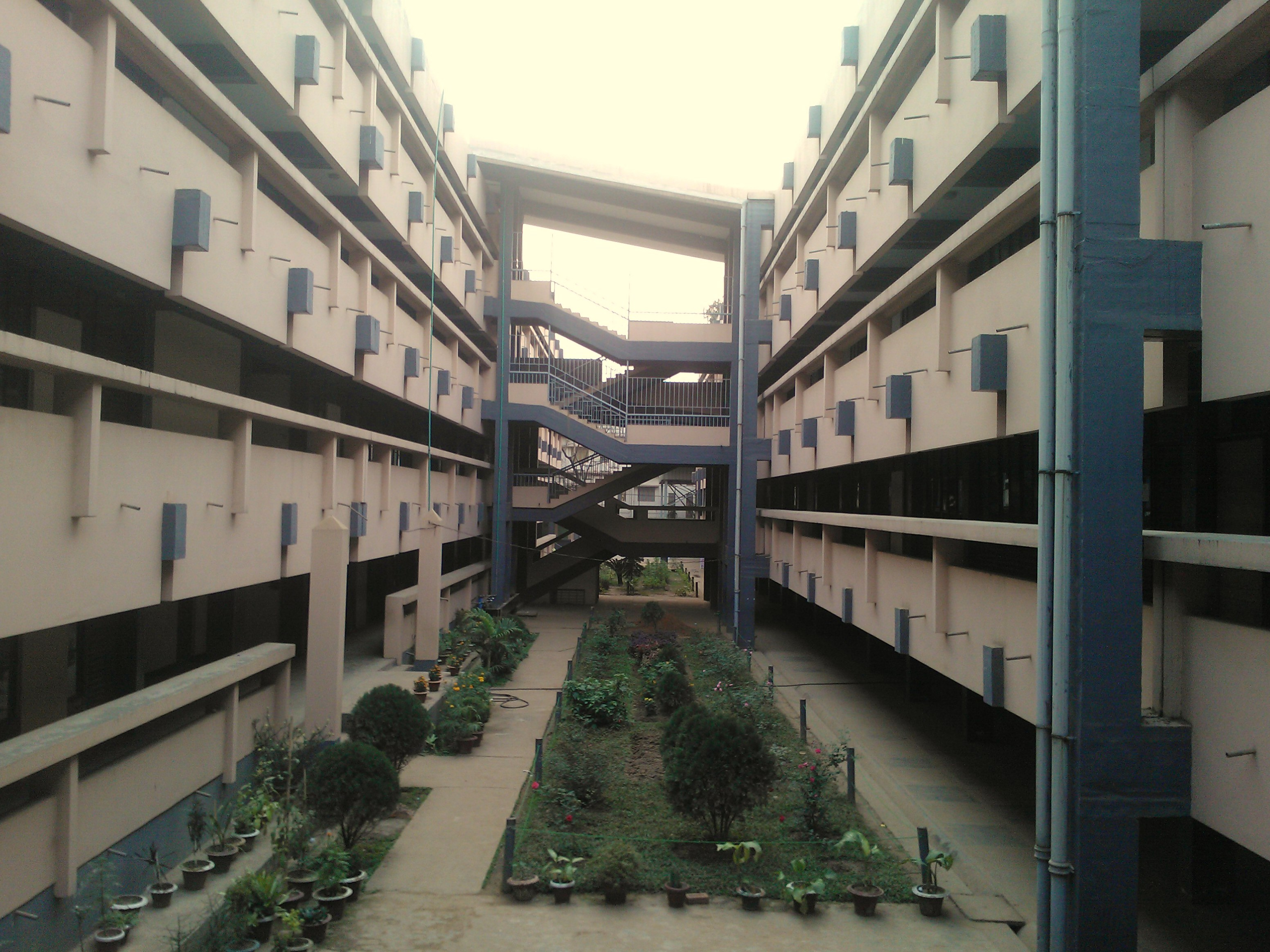 North building of Saint Joseph Higher Secondary School, Dhaka.